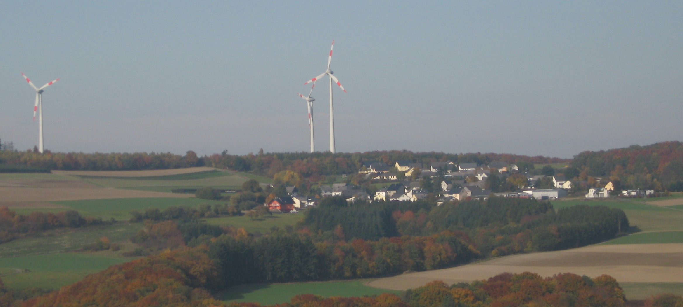 Village Walhausen in the Hunsrück landscape, Germany.